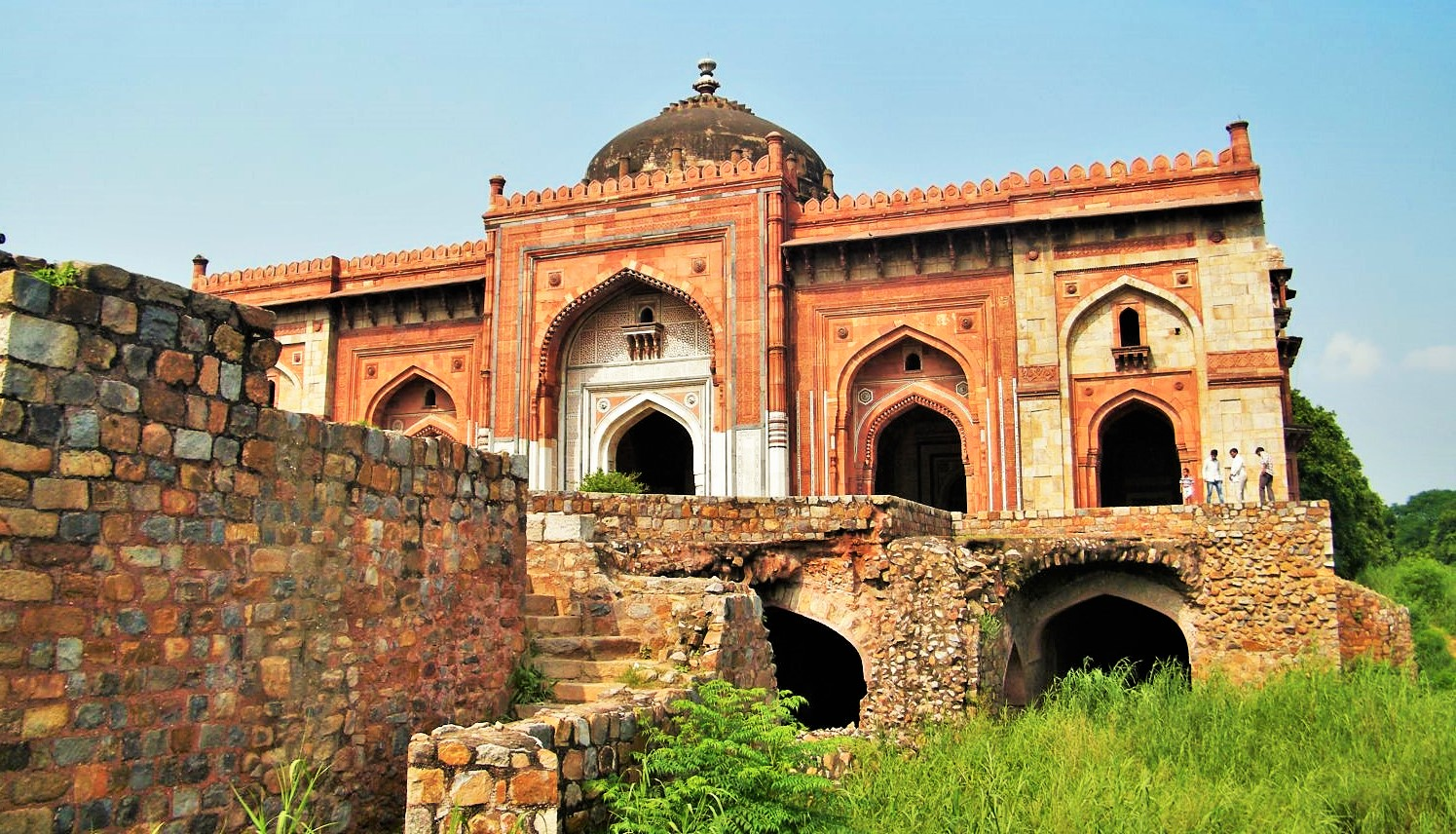 Purana Quila (Inderpat) or Delhi With all its walls Arcades, gateways and Bastions, gardens, the Mosque of Sher Shah (Kila Kohna Masjid - Qila-i-Kuhna mosque). The Sher Mandala and entrances to Subterranean passages.